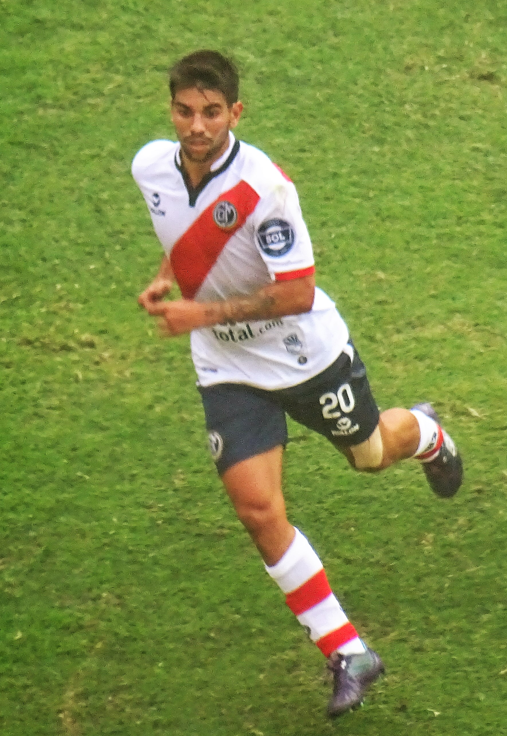 Pier Larrauri (Lima, 1994) Italian-peruvian footballer. National Stadium, Peru 2018